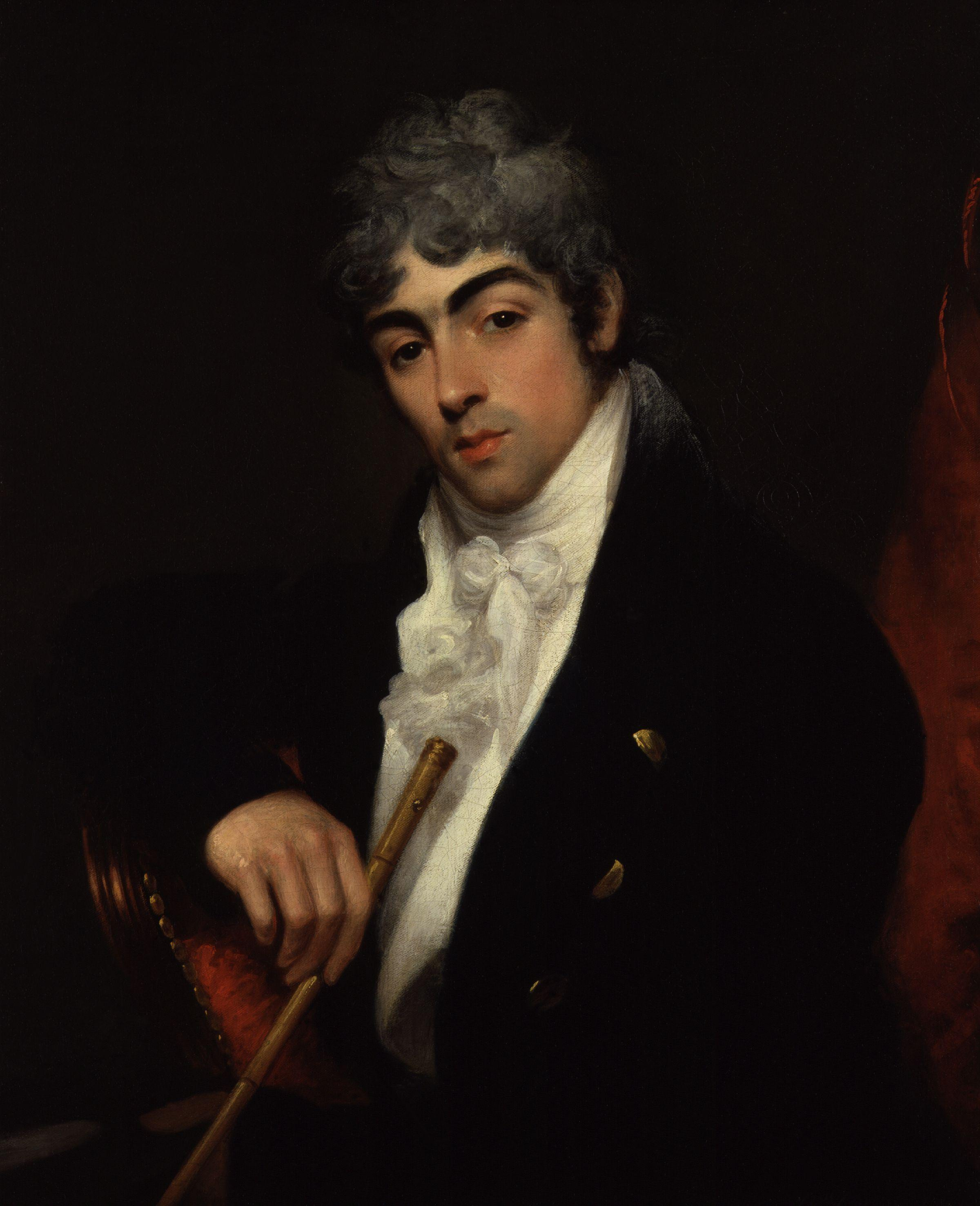 Edward Stanley, by James Green (died 1834). All images in this batch have been confirmed as author died before 1939 according to the official death date listed by the NPG.